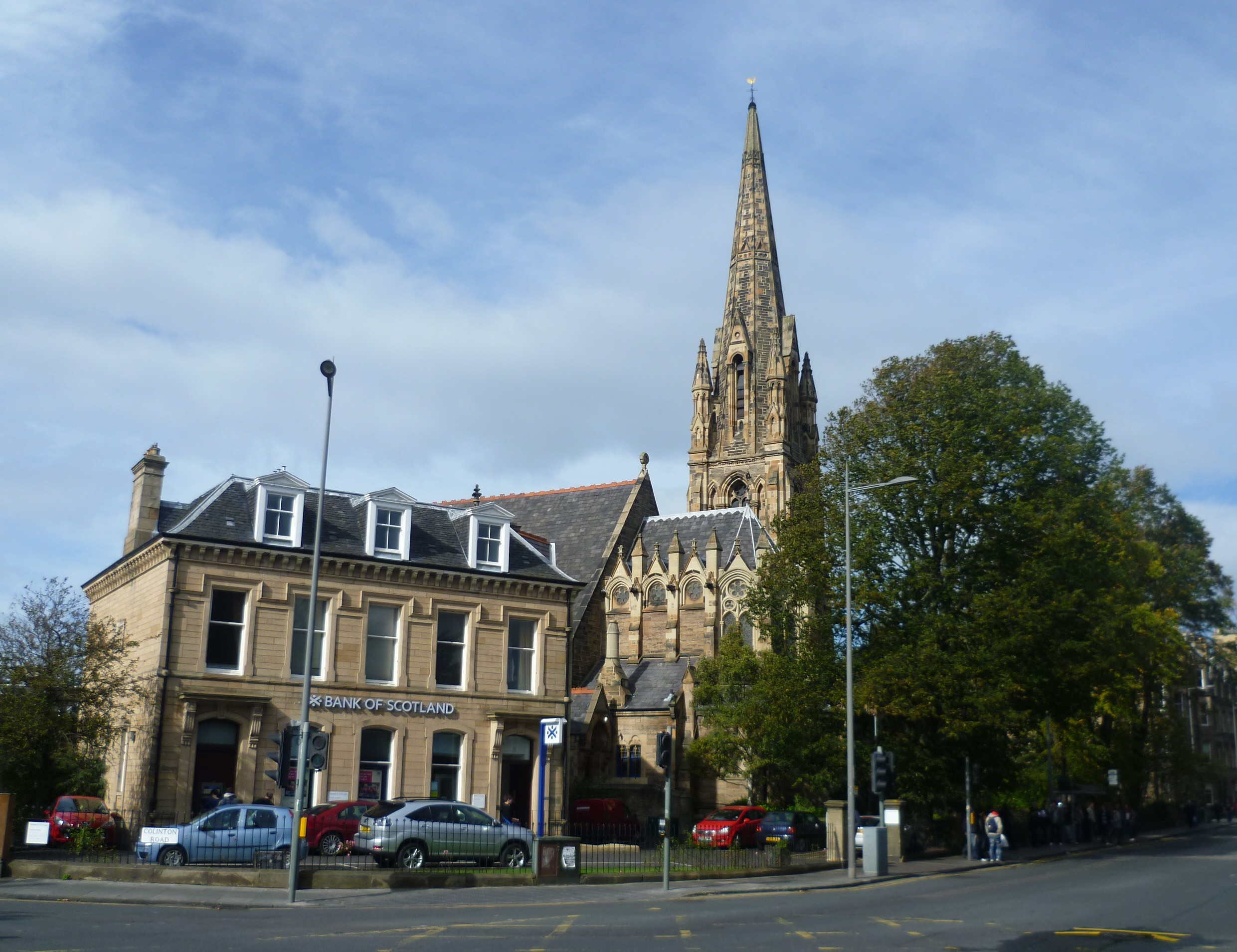 Former Bank of Scotland branch (now closed) and Christ Church (Episcopal) at Holy Corner